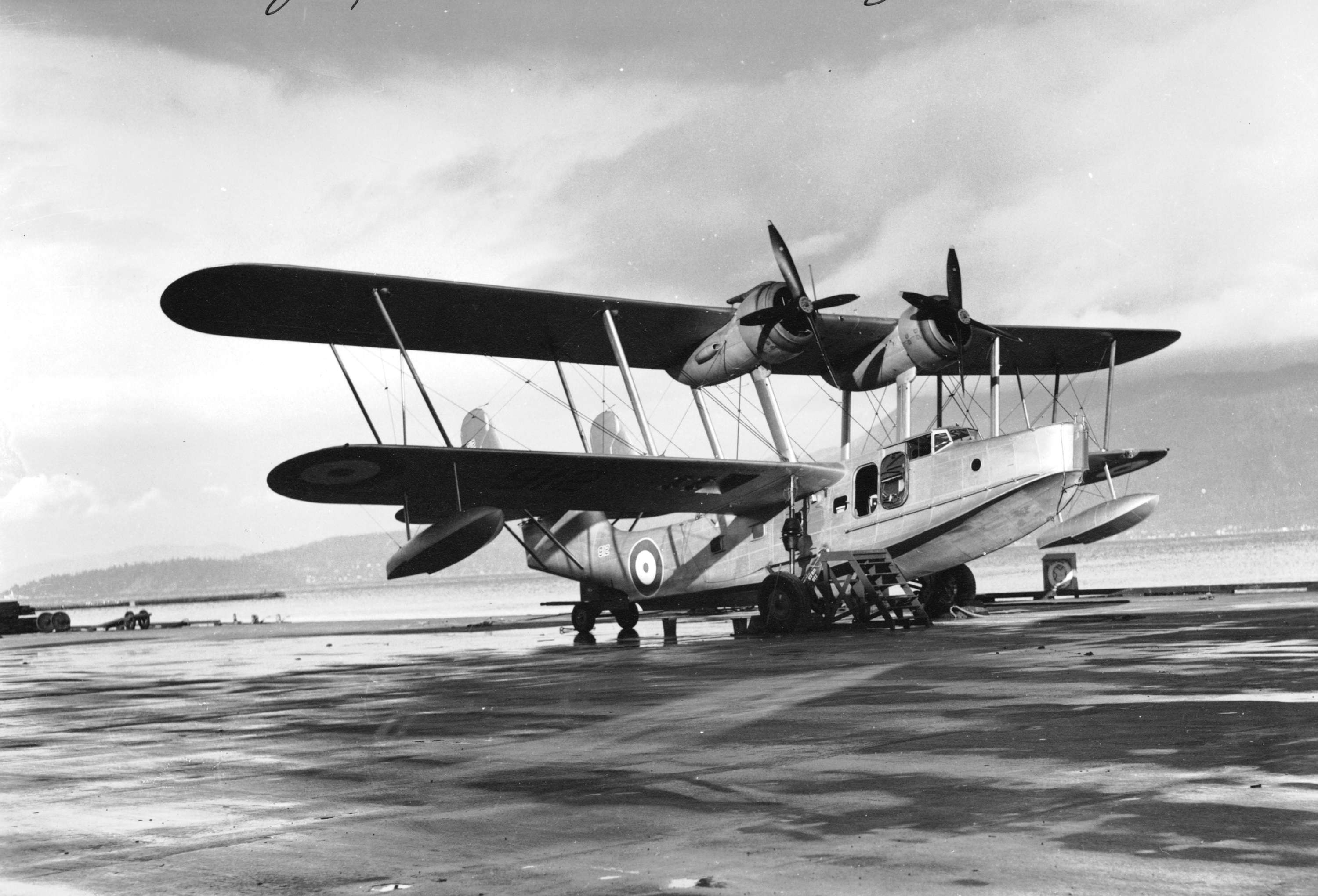 Supermarine Stranraer #912 flying boat at RCAF Station Jericho Beach.